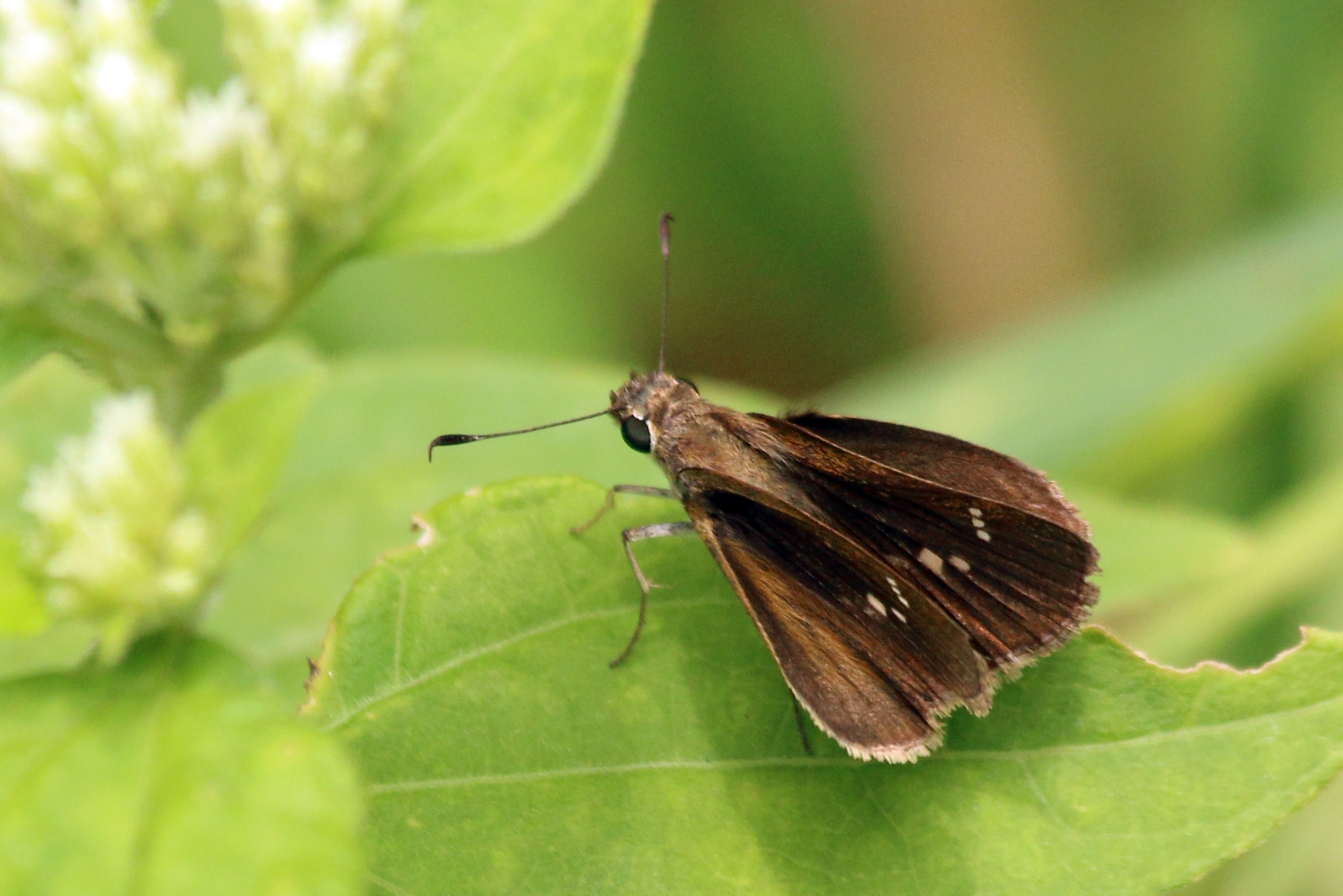 Cane skipper butterfly (Nyctelius nyctelius), Tobago